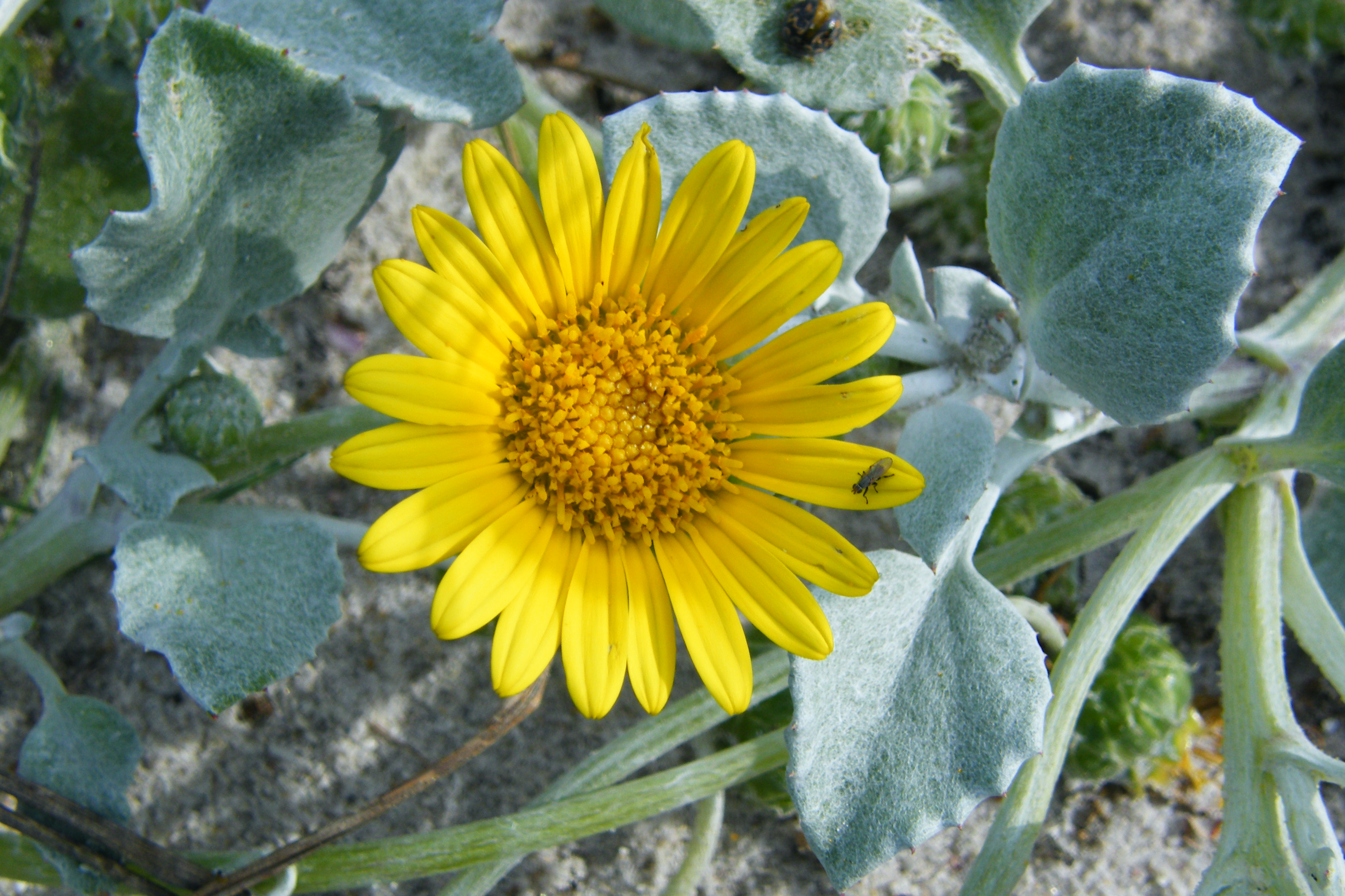 sea pumpkin